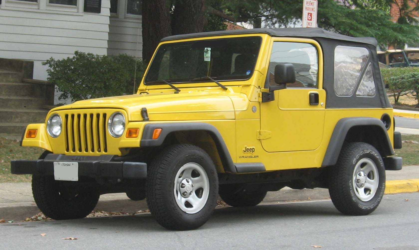 1997-2006 Jeep Wrangler photographed in College Park, Maryland, USA.